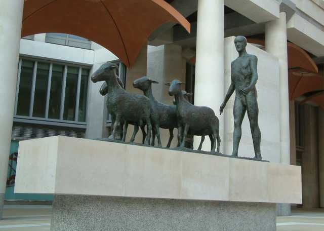 Shepherd and Sheep (1975), Bronze and fibre-glass by Dame Elisabeth Frink. Commissioned for the previous Paternoster Square complex and retained for the redeveloped square in 2000. Probably commemorates Paternoster Square's past, as the site of a livestock market. Photo taken by Tagishsimon on the 24th April 2004 See also [1] record of the sculpture being located at the 'West end of the Bastion High Walk at the entrance to the Museum of London'.